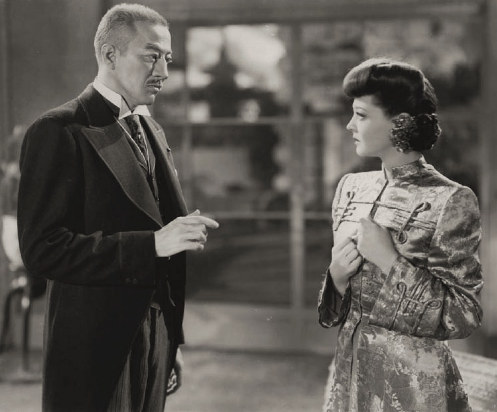 John Emery and Sylvia Sidney in Blood on the Sun (1945) - cropped screenshot (original image : see source)